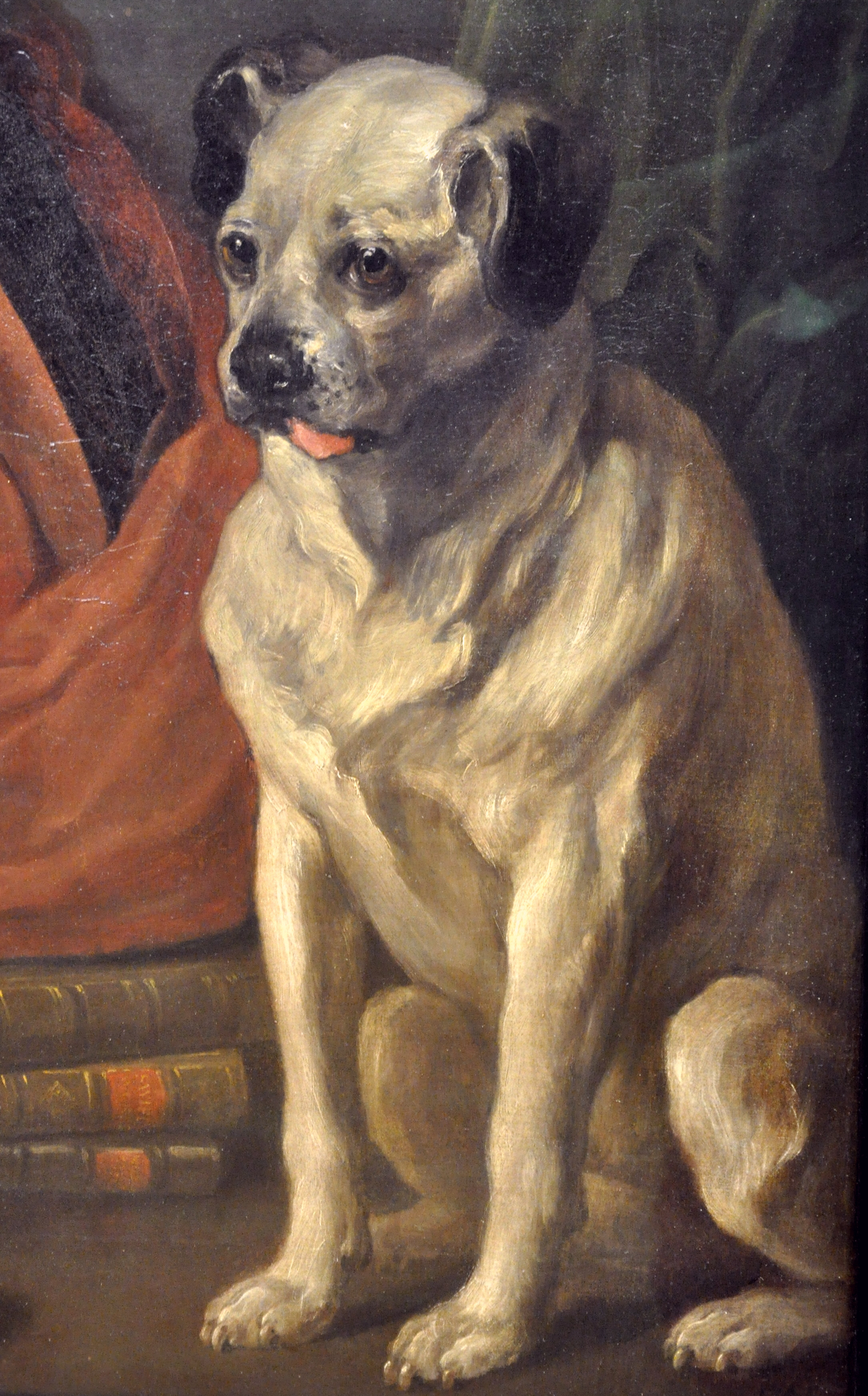 Detail: Pug